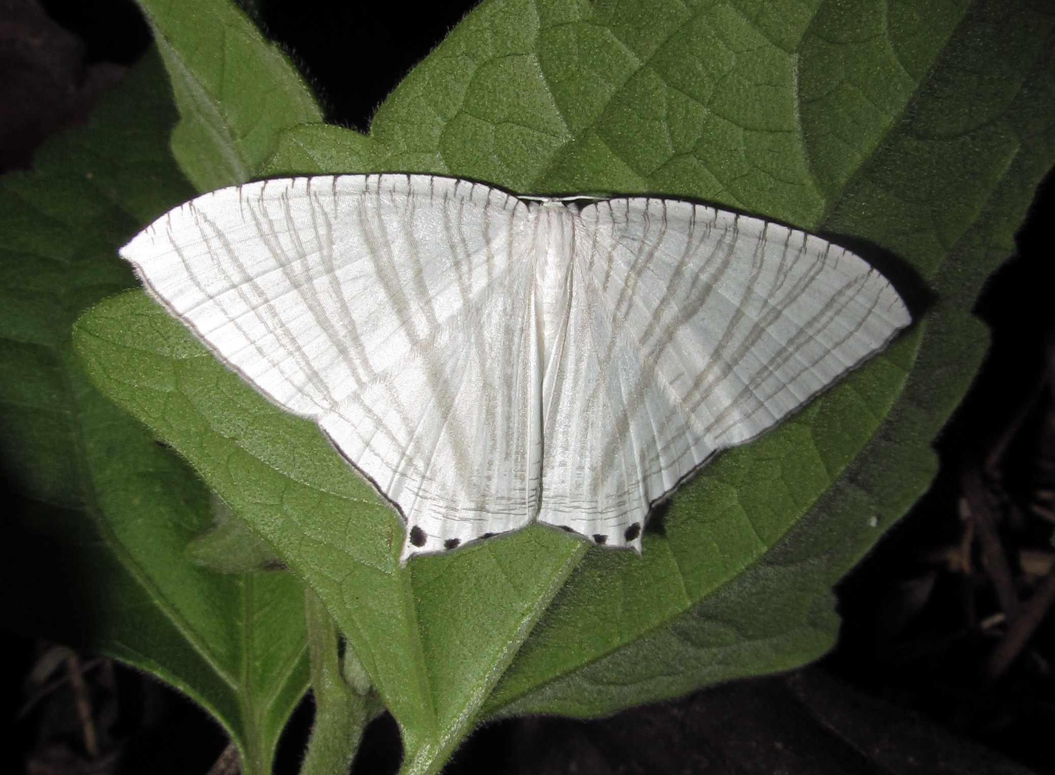 Pakke Jungle Camp, Sejjosa near Pakke Tiger Reserve, Arunachal Pradesh, India, 10th April 2012